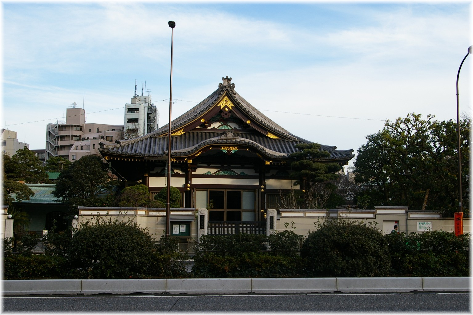 Shomanji Buddhist Temple (樹谷山 正満寺) in Minato, Tokyo, Japan. Address: 東京都港区高輪1-27-44. Web site: [1]